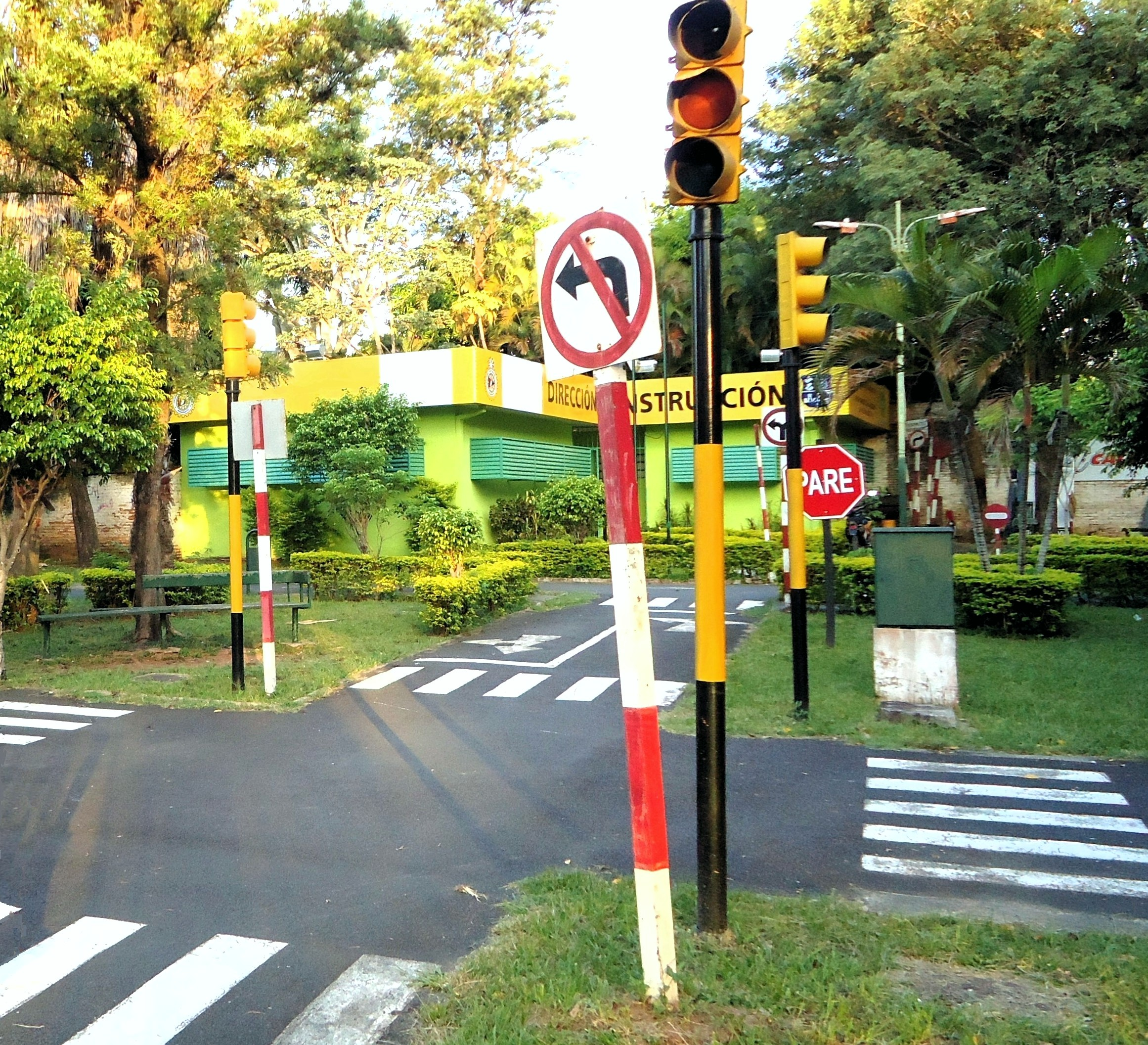 Road safety education